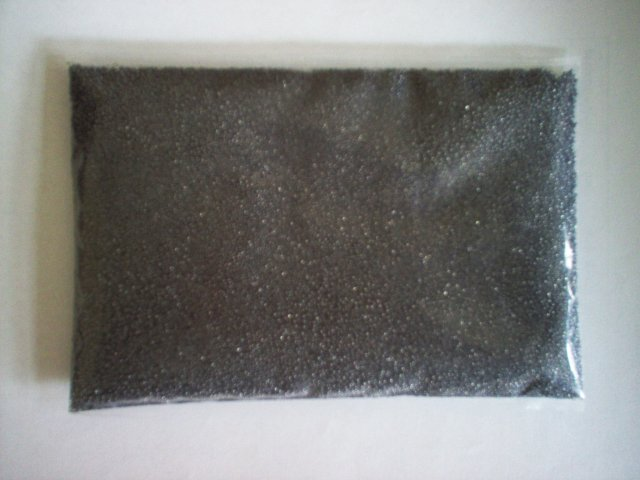 Title: Granular Silicon Desc: Granular Silicon for Czochralski crystal growth process Author: Twisp Date: 25.08.2005